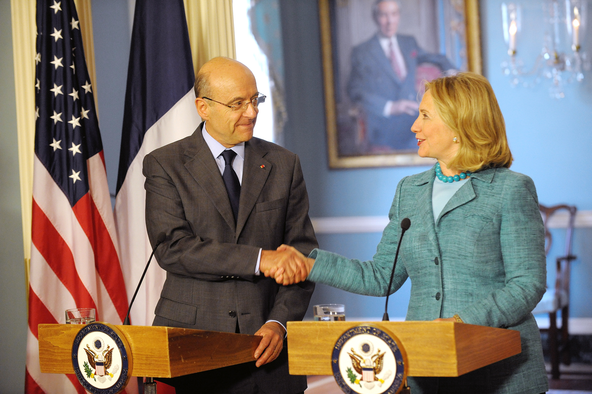 U.S. Secretary of State Hillary Rodham Clinton shakes hands with French Foreign Minister Alain Juppe after their joint press conference, at the U.S. Department of State in Washington, D.C., on June 6, 2011. [State Department photo/ Public Domain]